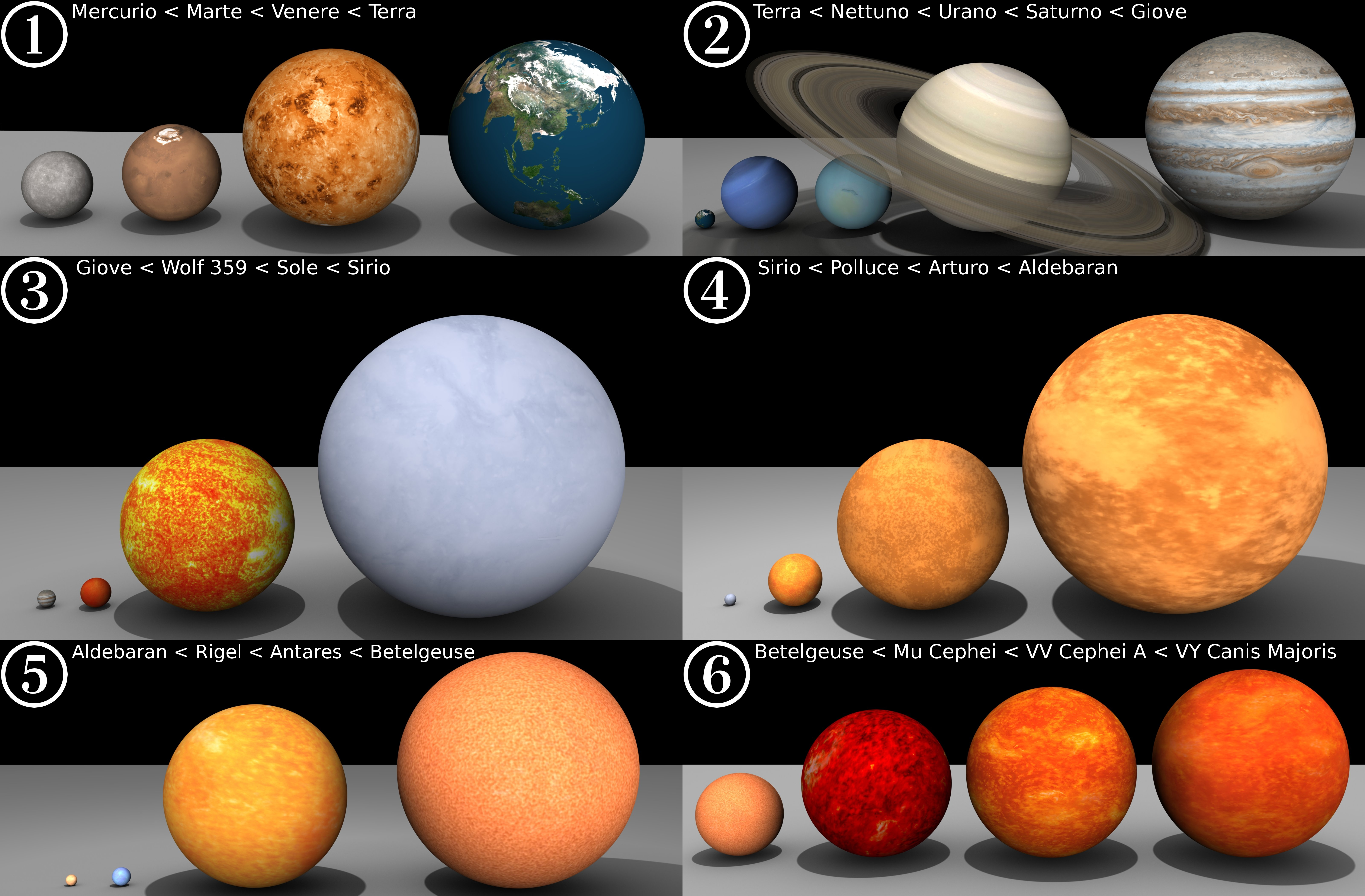 Relative sizes of the planets in the solar system and several well known stars. Star colours are estimated (based on temperature) and Saturn's rings are shown slightly larger in the picture than to scale. Blender 3D was used for the models, lighting, and rendering. The GIMP was used to assemble and label the six renders into a single image. Wolfram Alpha was used to calculate each star's base colour through Wien's Law. The relative sizes of stars in terms of their representative solar radius were calculated for all stars in each frame. Texture maps for stars were created using images of the Sun from SOHO. Planetary texture and bump maps (excluding Earth) were from Celestia Motherlode. Lastly, Earth's texture and bump map were obtained from Natural Earth III.